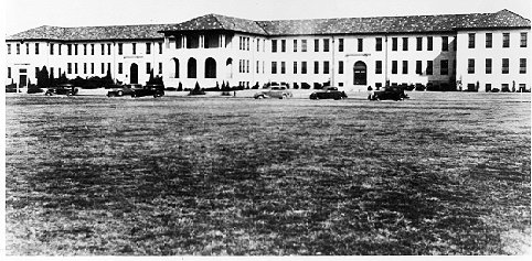 Austin Hall (Building 800) of Air University's campus on Maxwell Air Force Base in Montgomery, Alabama